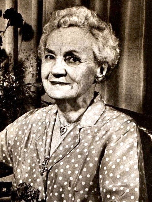 Photo of Emma Ray McKay,a humanitarian, music patron, and the wife of David O. McKay, President of The Church of Jesus Christ of Latter-day Saints (LDS Church).